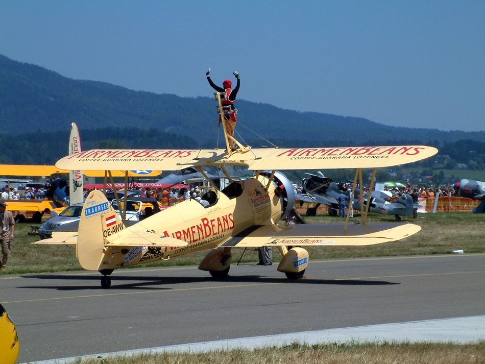 Wing walker Peggy Krainz taxies out for her flight display on a Boeing Stearman at the Airpower05 air show in Zeltweg, Austria.